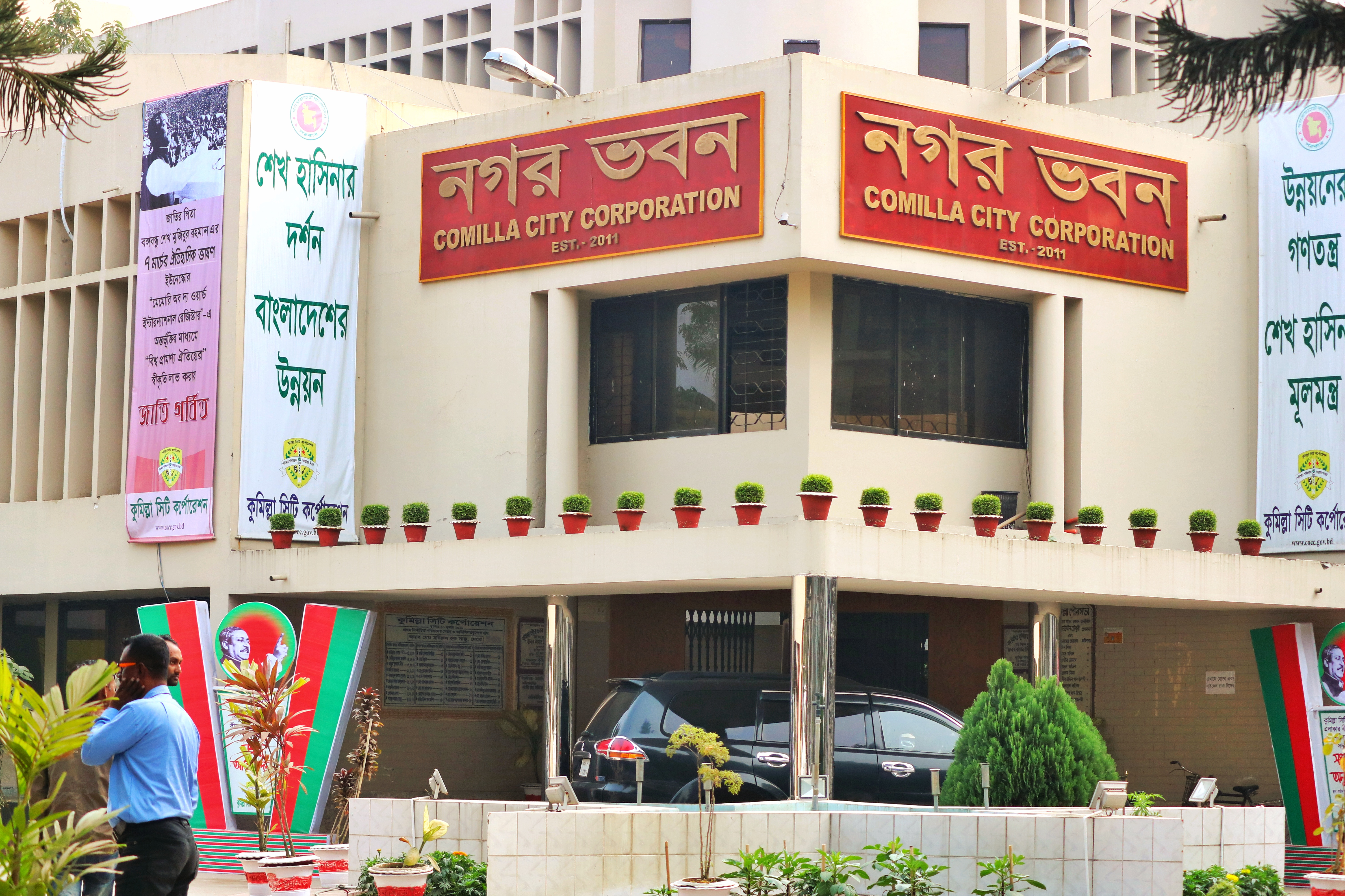 This is the front view of Comilla City Corporation's main building